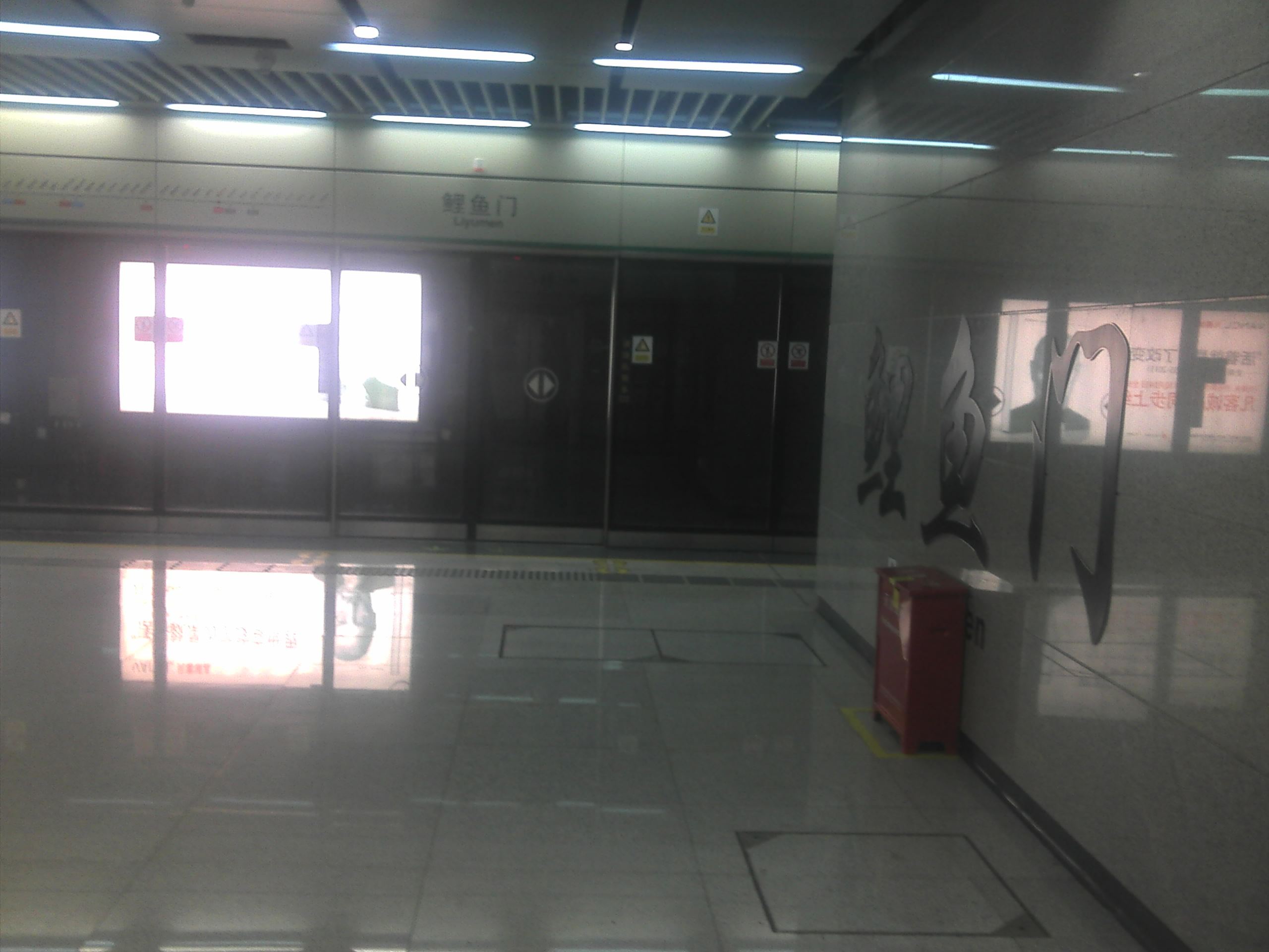 This photo was taken as Nov 19, 2011.